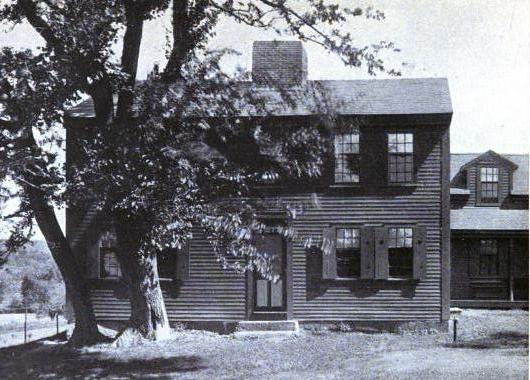 Image of the main building of Fruitlands, a short-lived Transcendentalist community founded by Charles Lane and Bronson Alcott. Original caption notes the mulberry tree was "planted by the philosophers for the propigation of silkworms". From the frontispiece to Bronson Alcott's Fruitlands by Clara Endicott Sears. Boston: Houghton Mifflin Company 1915.